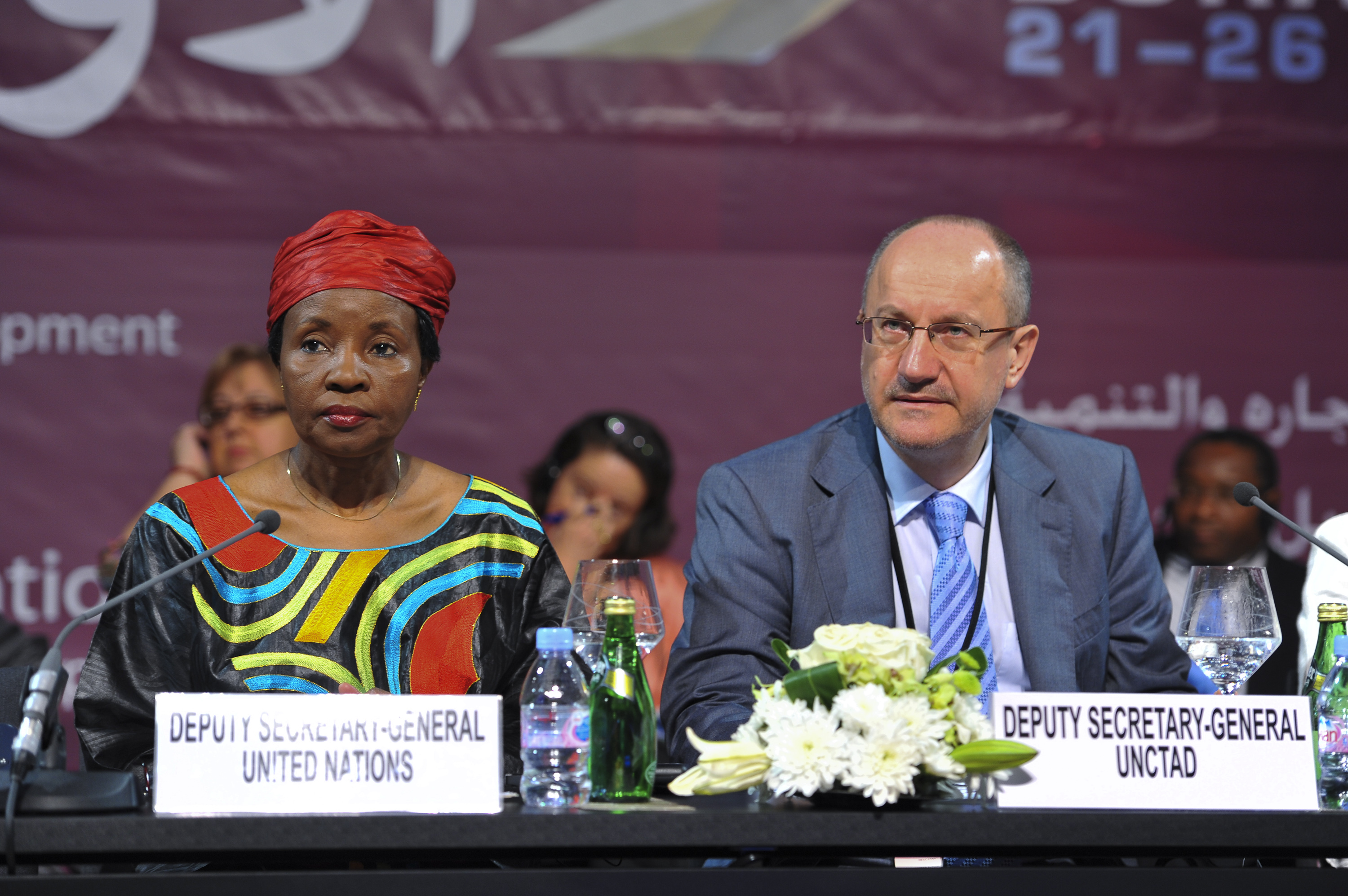 Mrs. Asha-Rose Migiro, Deputy Secretary-General of the United Nations and Mr. Petko Draganov, Deputy Secretary General of UNCTAD at the Thirteenth Ministerial Meeting of the Group 77 and China